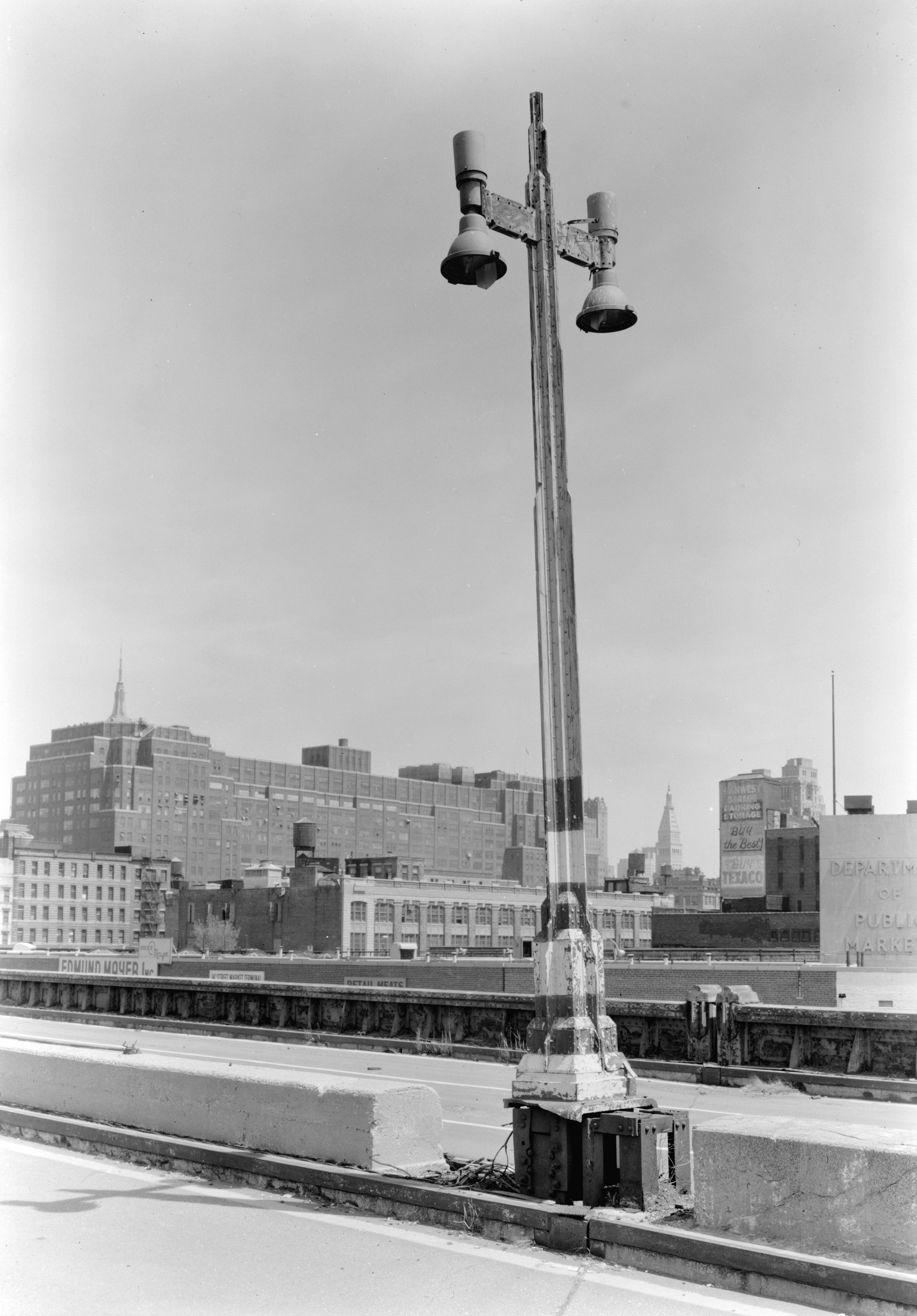 West Side Highway, lamp post near 23rd St. ramp.